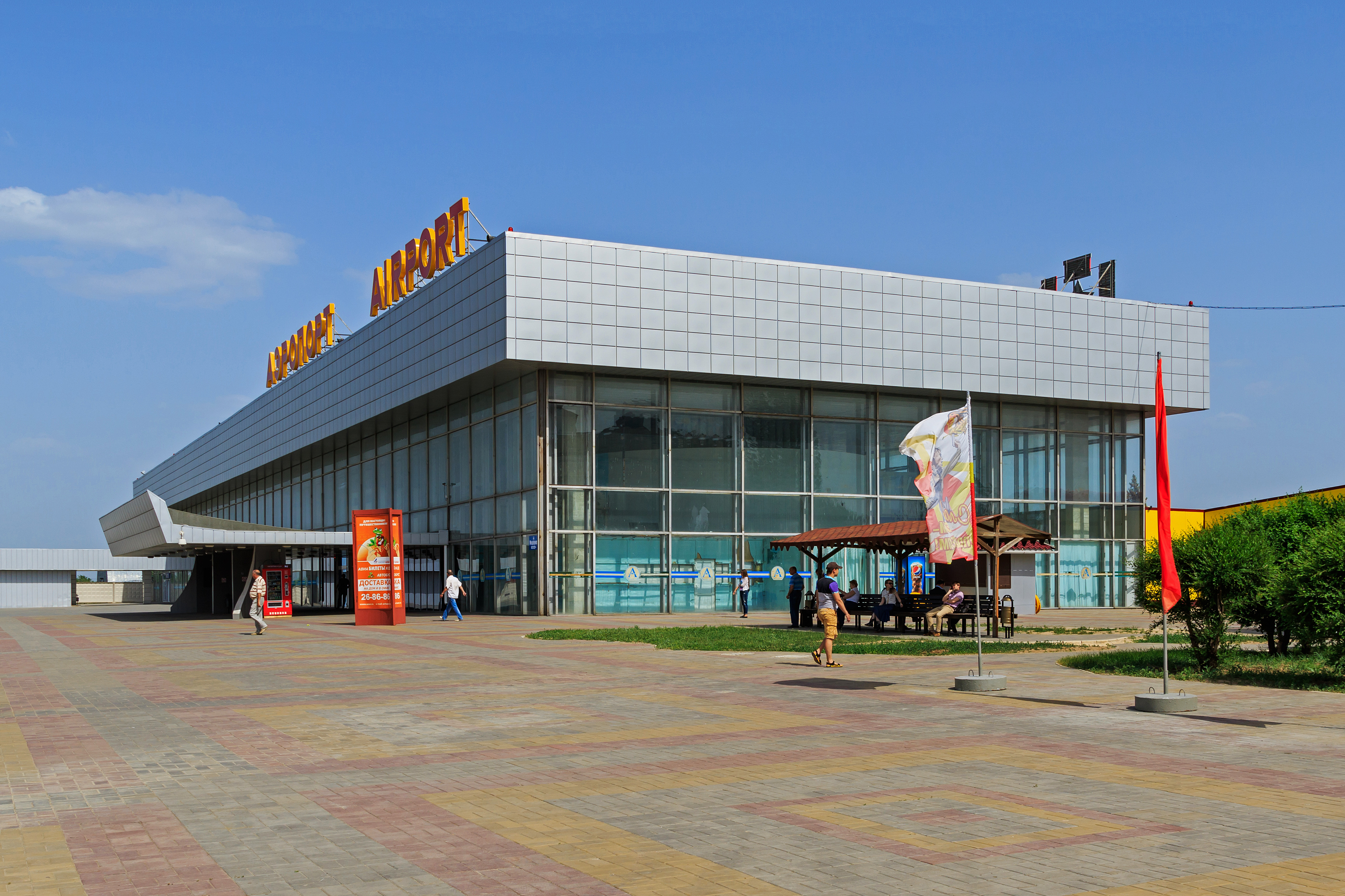 Gumrak Airport in Volgograd, Russia